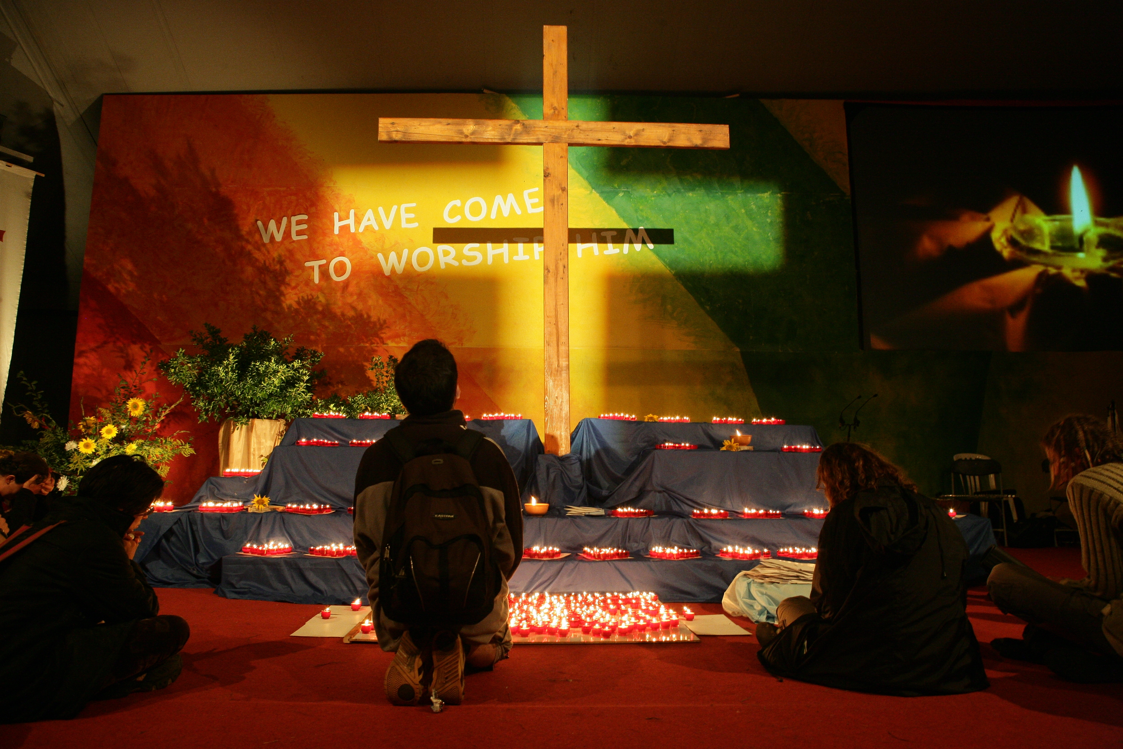 Meeting organized in Volkenroda (Thuringen, Germany) by Chemin Neuf Community during WYD 2005 - Reconciliation night.